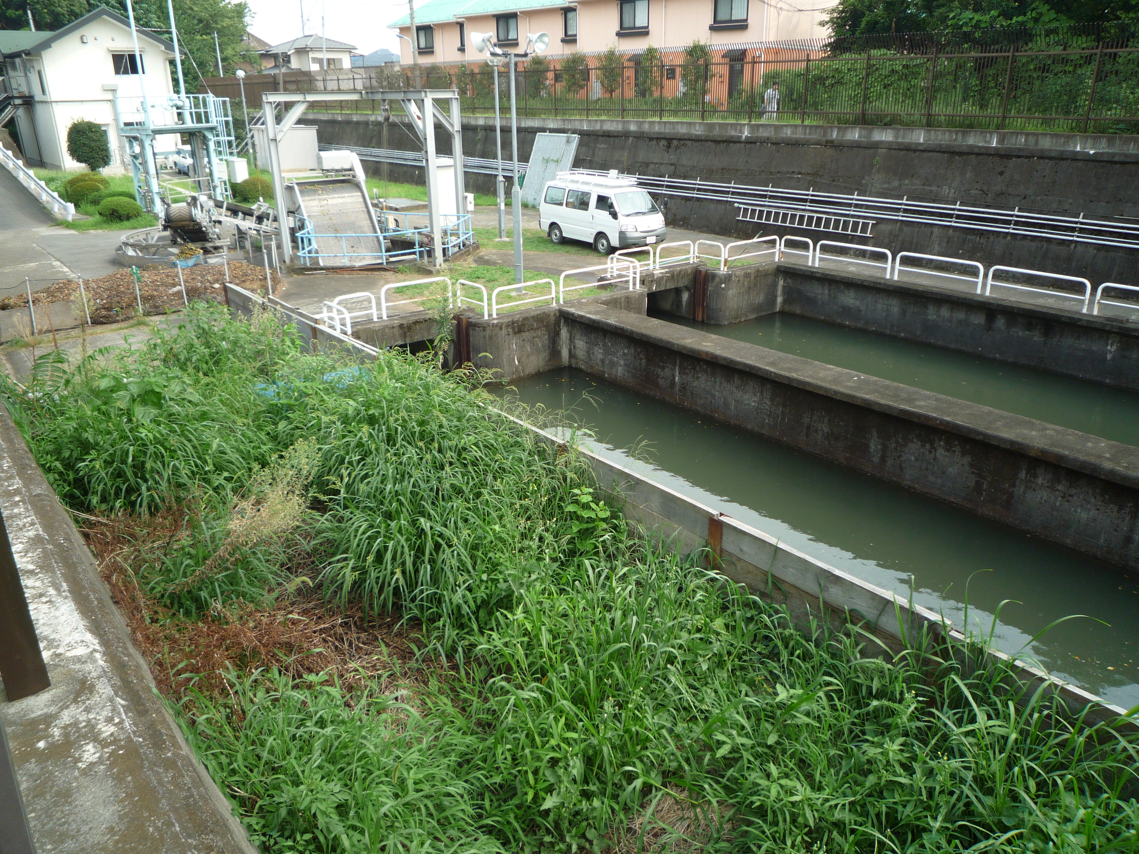 Tamagawa Josui Canal; Kodaira Water Surveillance Station, Tokyo.